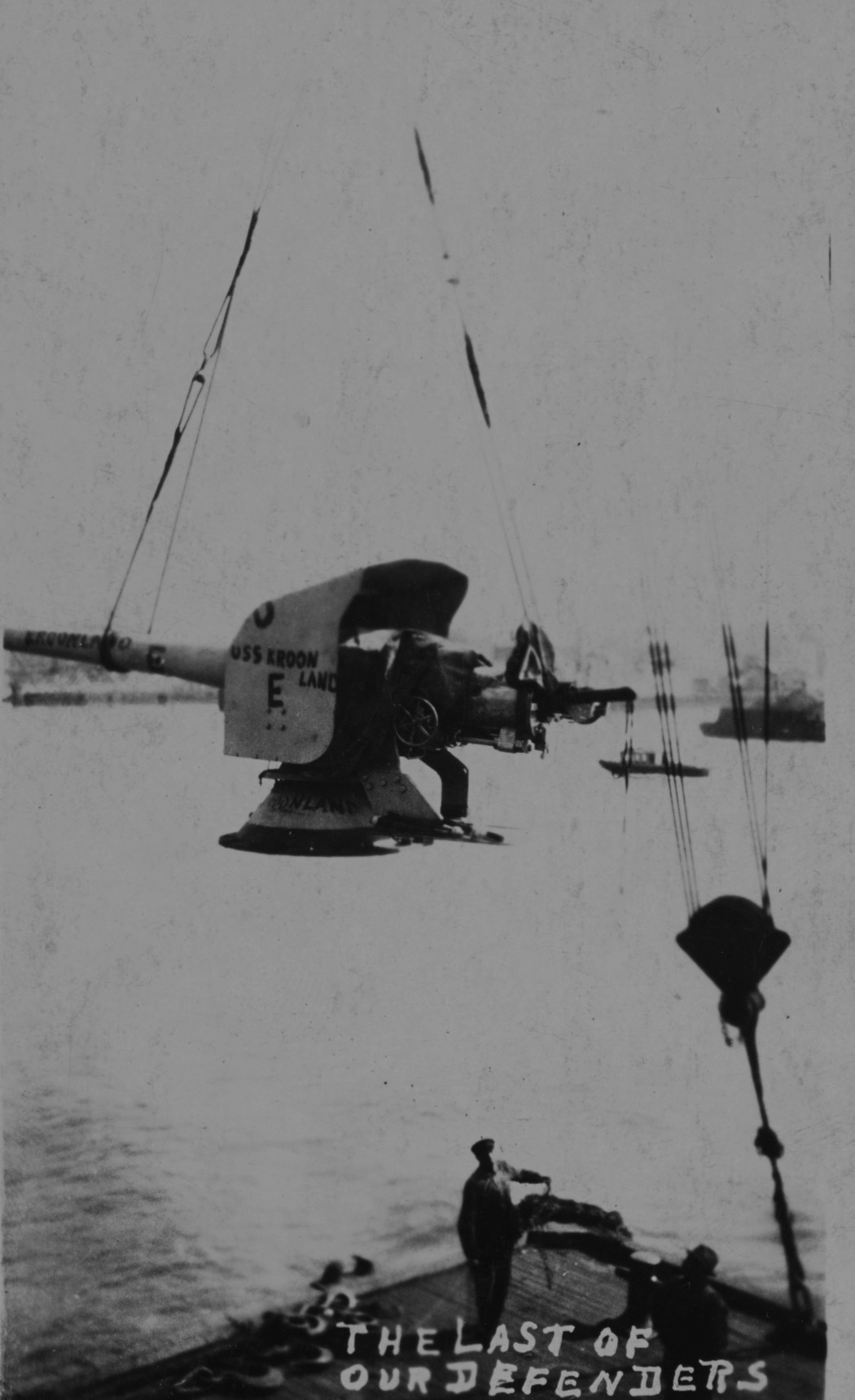 USS Kroonland (ID # 1541) Removing one of the ship's deck guns (Bethlehem Steel Co. 4 inch standard Mark IV), c. September 1919. Note the Battle Efficiency "E" and the ship's name painted on the gun's shield. The original image is printed on postcard ("AZO") stock. Donation of Dr. Mark Kulikowski, 2007. U.S. Naval Historical Center Photograph.